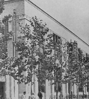 Aichi Bank Head Office (Antecedent of Tokai Bank)